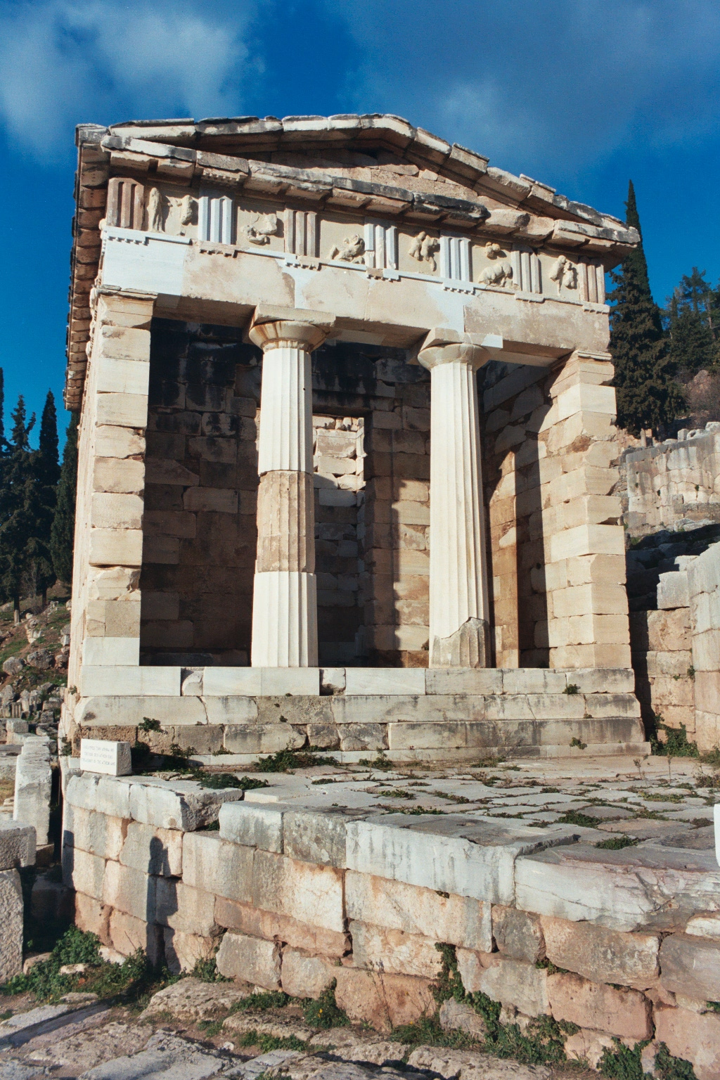 The Treasury of Athens, the most complete building at the site of Delphi, holiest of ancient Greek sites, the site of the Pythian Games and of the Delphic oracle. It was built to commemorate and with the spoils of the Battle of Marathon.